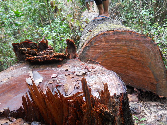 Prey Lang forestភាសាខ្មែរ: ព្រៃឡង់